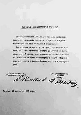 Secret protocol of the German–Soviet Frontier Treaty signed on 28 September 1939. Amendment to Pact Ribentropp-Molotov. Quote in translation: The undersigned plenipotentiaries, on concluding the German Russian Boundary and Friendship Treaty, have declared their agreement upon the following: Both parties will tolerate in their territories no Polish agitation which affects the territories of the other party. They will suppress in their territories all beginnings of such agitation and inform each other concerning suitable measures for this purpose. By authority of the Government of the U.S.S.R.: V. Molotov For the Government of the German Reich: v. Ribbentrop Moscow, September 28,1939.